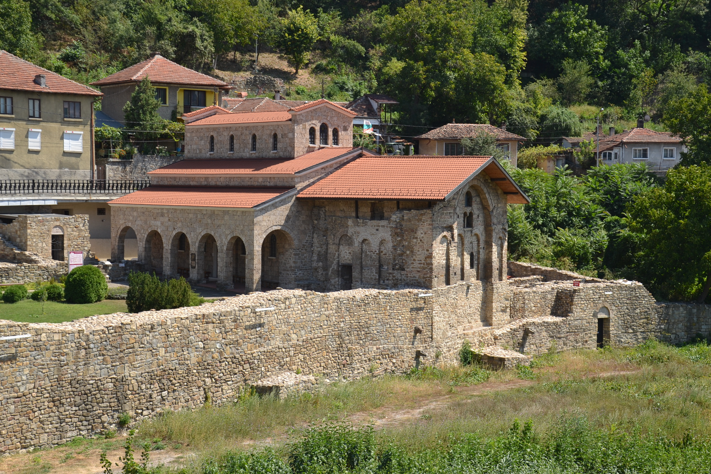 Veliko Tarnovo (Велико Търново) - SS.Forty Martyrs Church